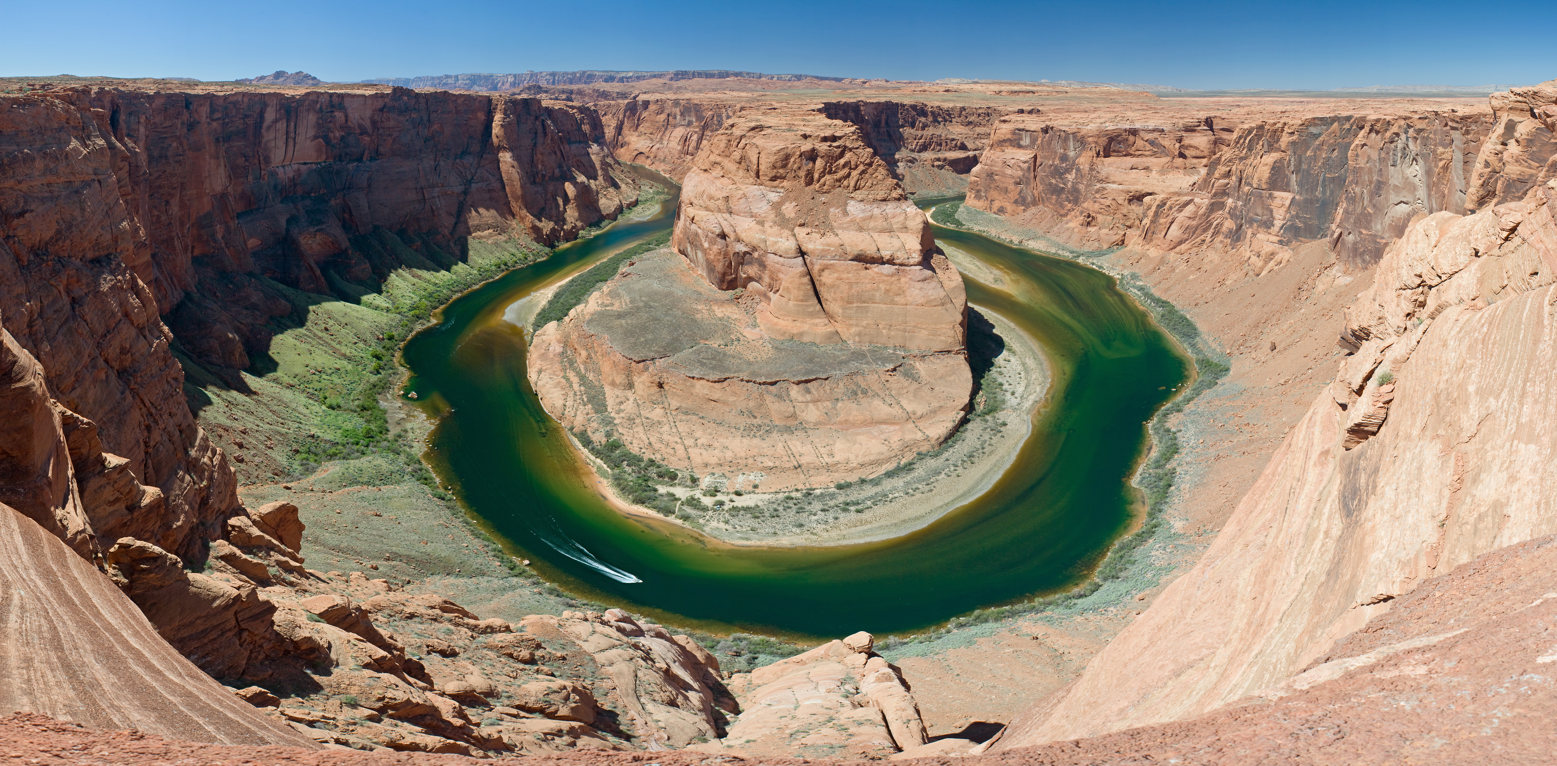 The Horseshoe Bend of the Colorado River is located a few kilometers south of the city of Page in Arizona. Panorama stitched from 2x10 portrait format images. The camera was rotated using a Nodal Ninja [3] nodal point adapter which was mounted on a tripod. All photos were taken with the same exposure settings in RAW format and developed with exactly the same settings in a RAW converter. For stitching PTGUI [4] was used.